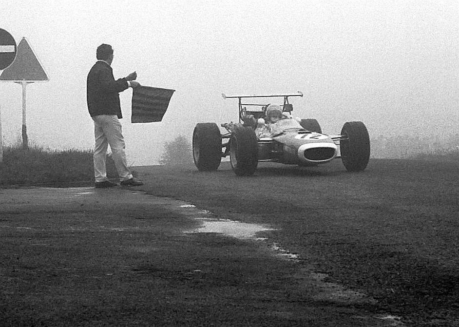 Jean Pierre Beltoise in a Matra Formula 1 car during practice for the German Grand Prix at Nürburgring in August 1968.